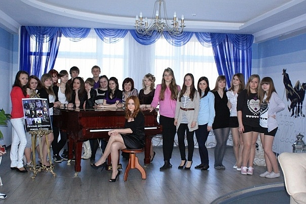 Innovative foyer of library of college: the Literary drawing room